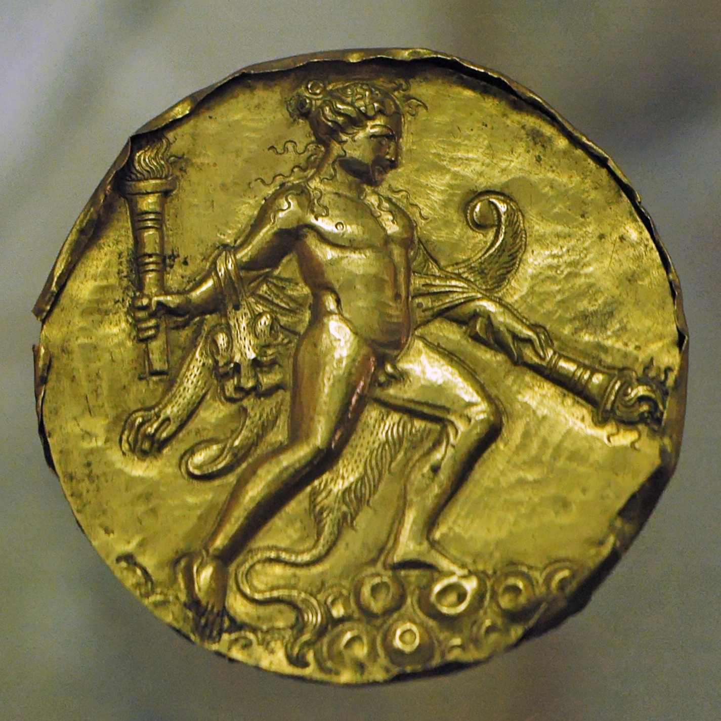 Gold phaler (ornament worn by horses), one of a pair, representing Dionysos. Syria, 3rd century BC.